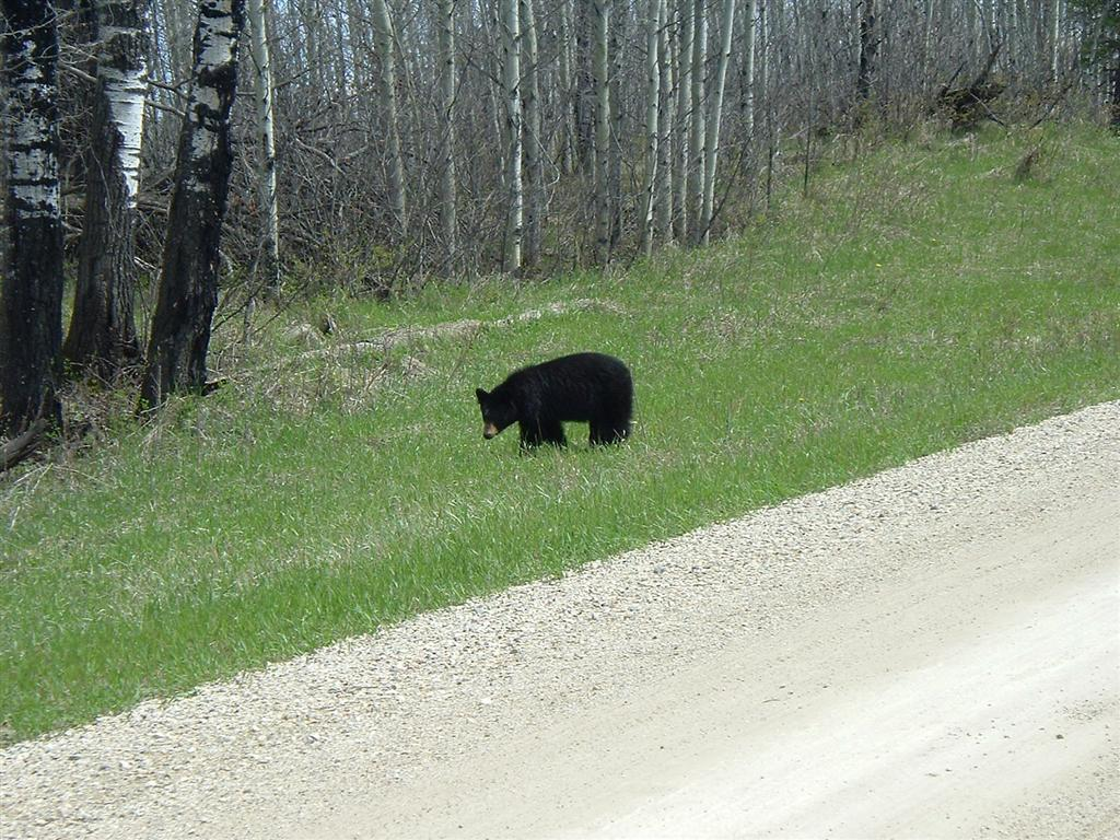 Black Bear at Riding Mountain National Park